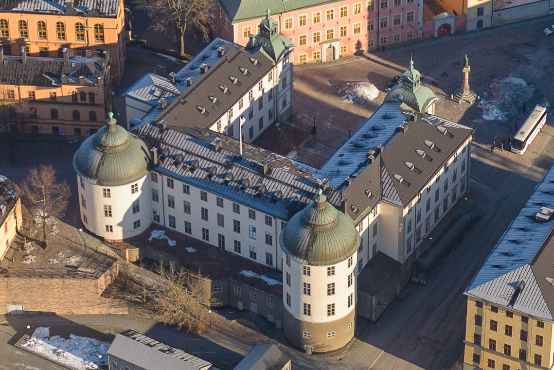 Wrangelska palatset.